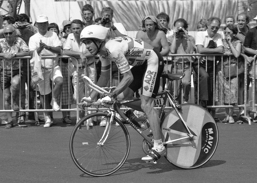 Greg LeMond starts the 21st and final stage of the 1989 Tour de France, a 24.5km TT from Versailles to Paris.